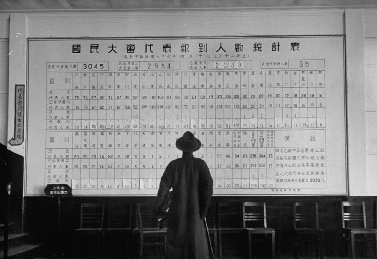 1948 representative of national assembly